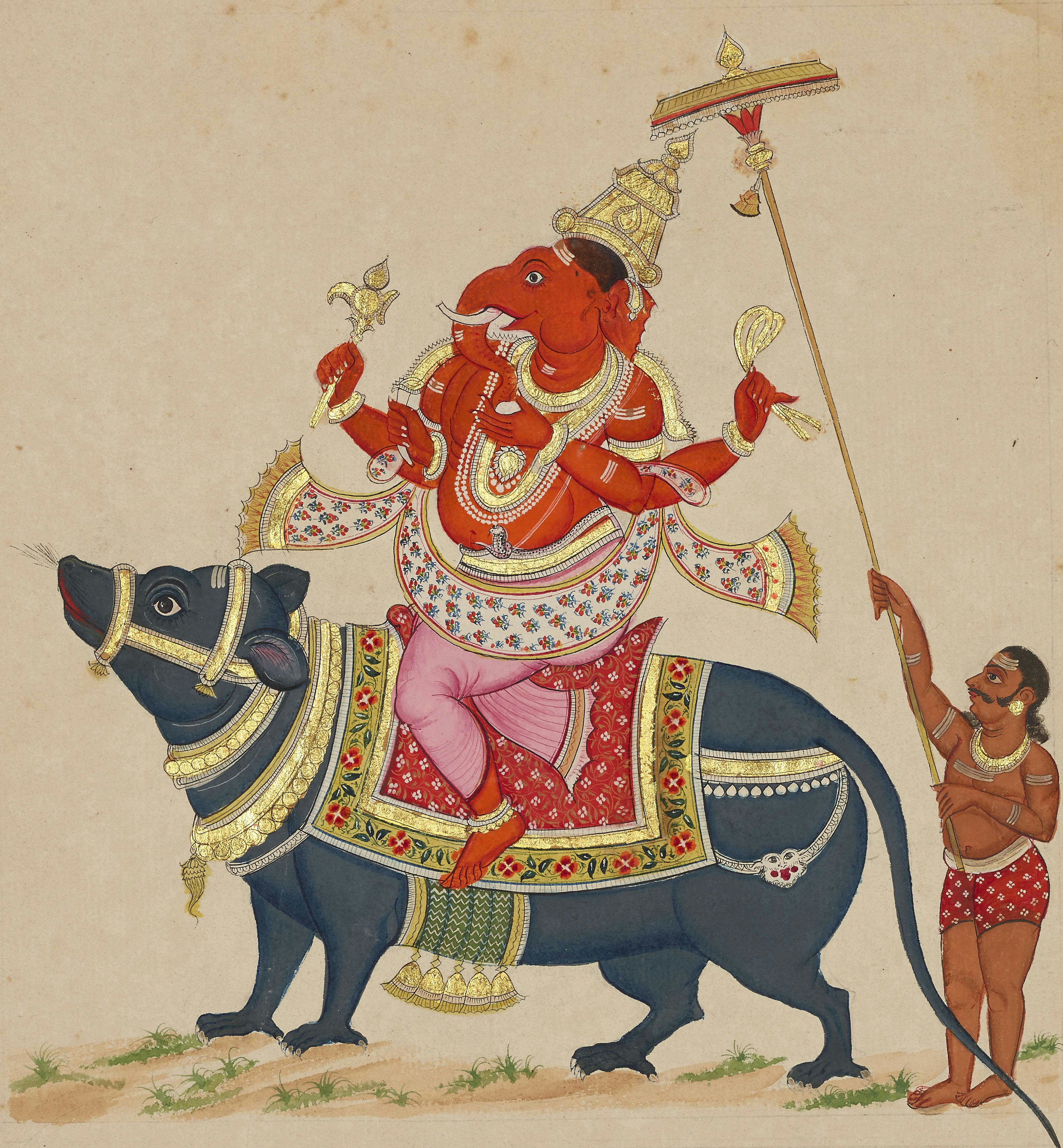 "Painting of Gaṇeśa riding on his vehicle, the Indian rat or bandicoot. With his trunk Gaṇeśa nuzzles a 'laddu', his favourite sweetmeat that is responsible for his protruding belly. His ample waist is adorned by a large snake, an animal associated with his father Śiva. Gaṇeśa is dressed in a finely designed textile. An attendant appears behind with a parasol. Made on laid and water-marked European paper, dated 1816."